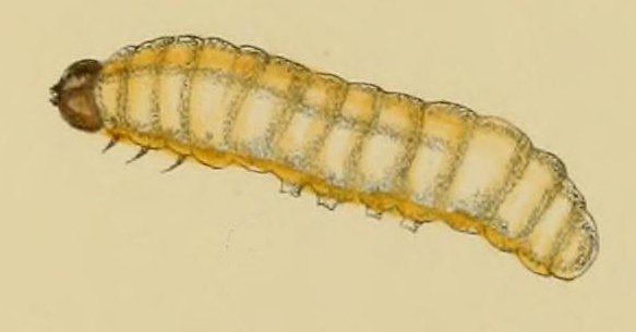 Sesia bembeciformis, larva